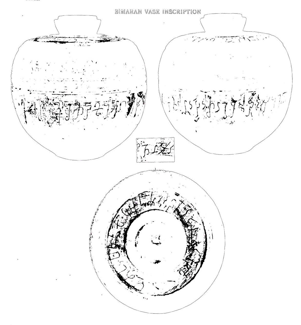 Bimaran vase inscriptions